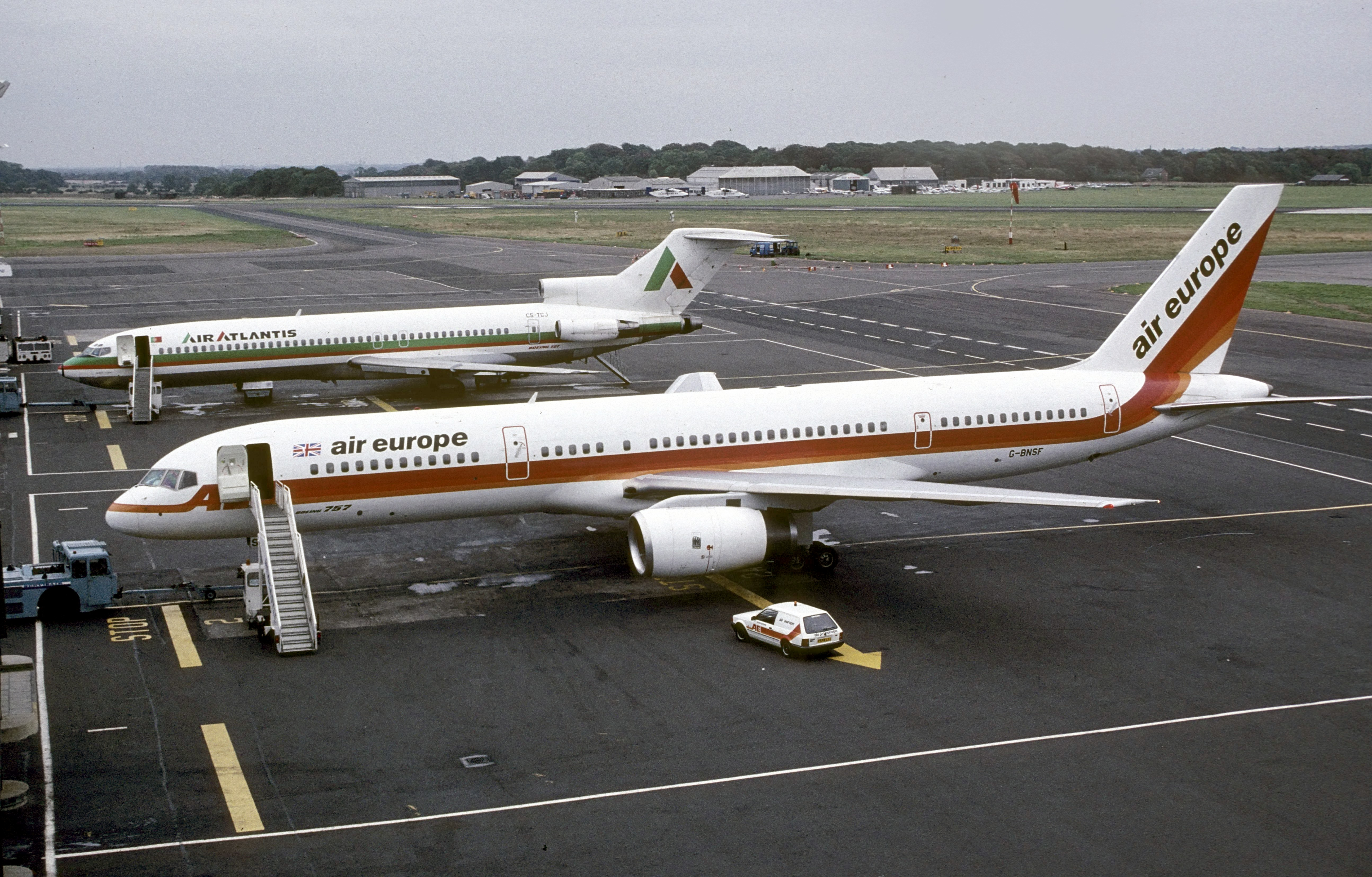 Air Europe's 757-236 G-BNSF on the ramp at Newcastle Airport. The Air Atlantis 727 is CS-TCJ. Air Atlantis operated 727s between 1986 and 1988.